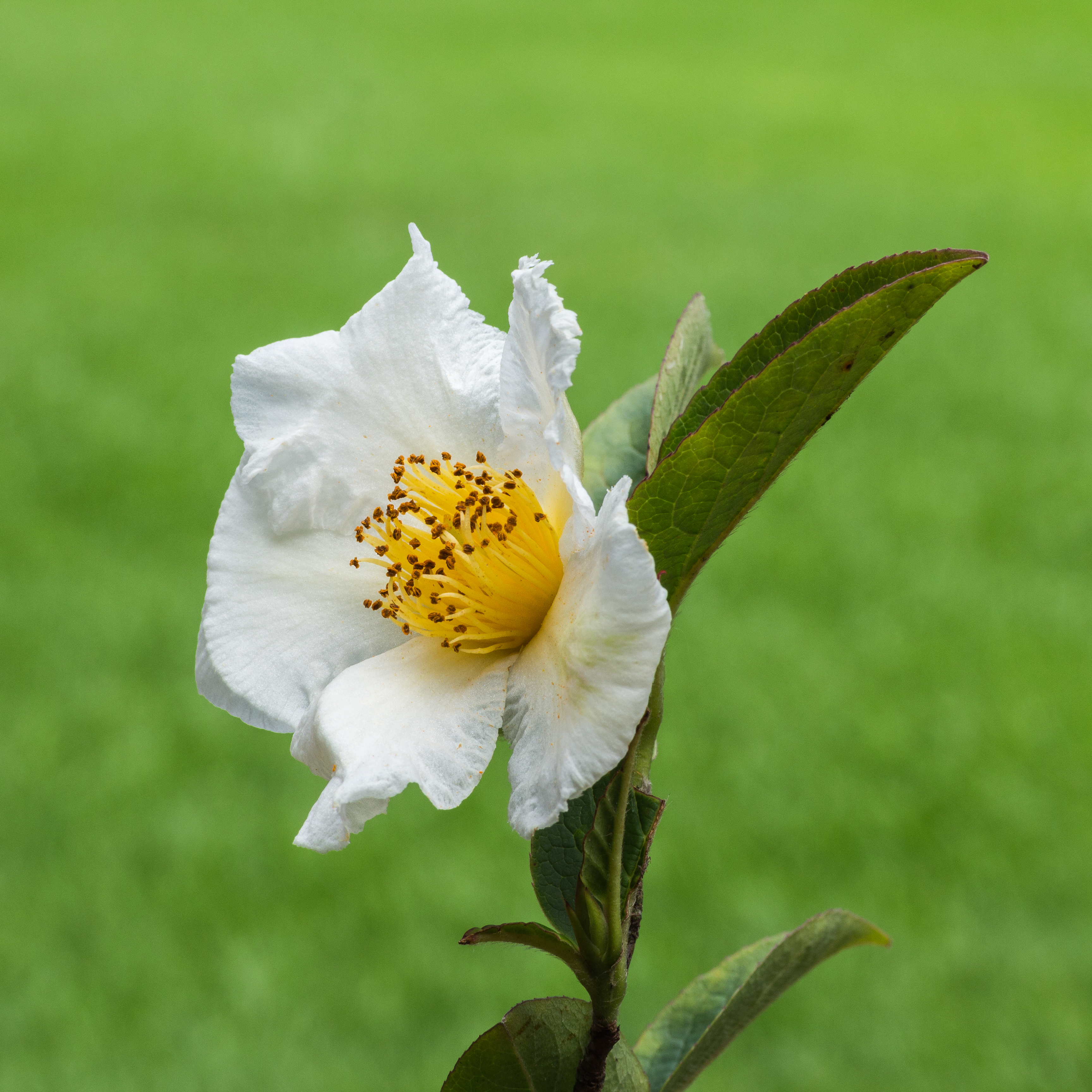 Beautiful delicate flower of Stewartia rostrata